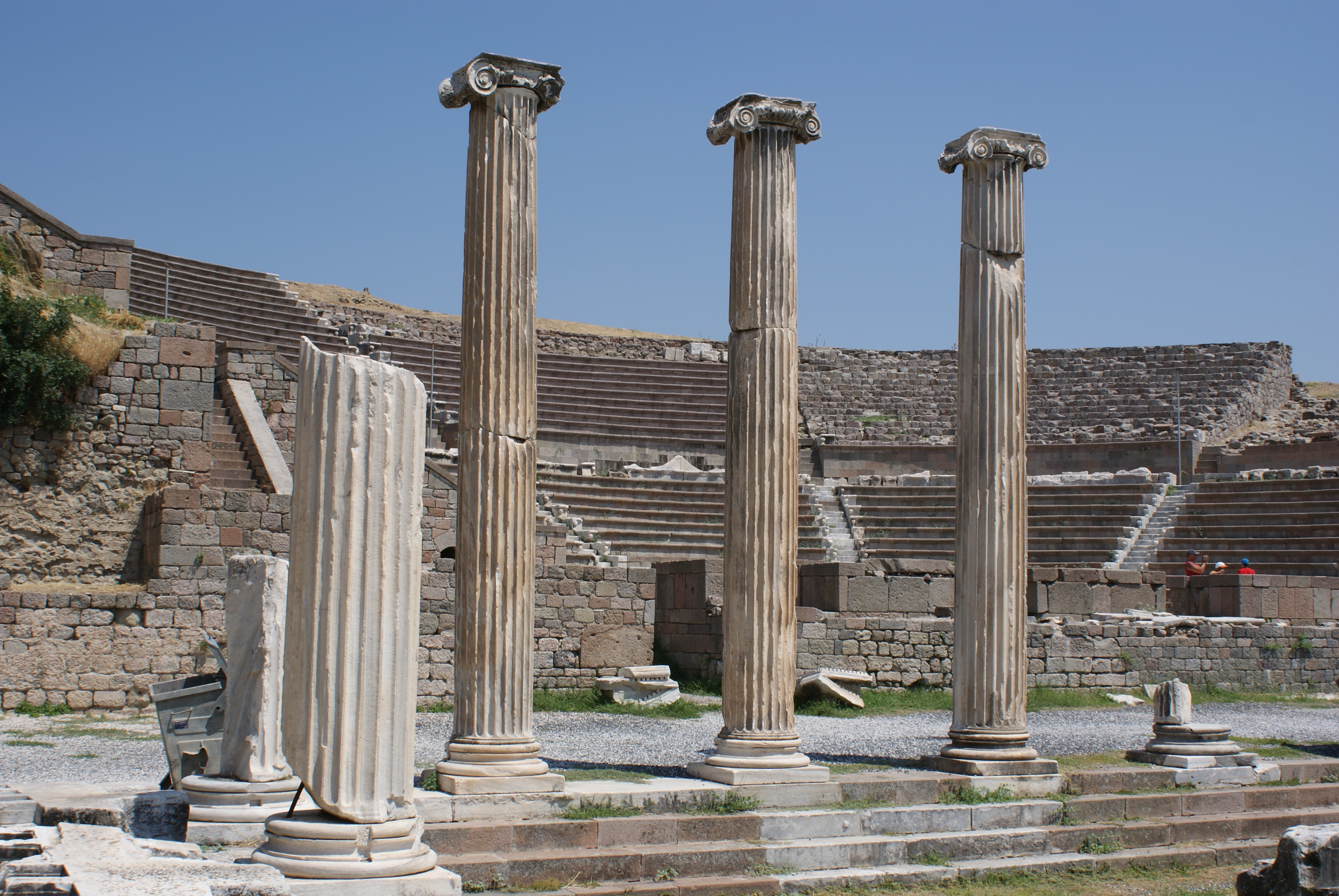 Theatre at the Asclepion, Pergamum